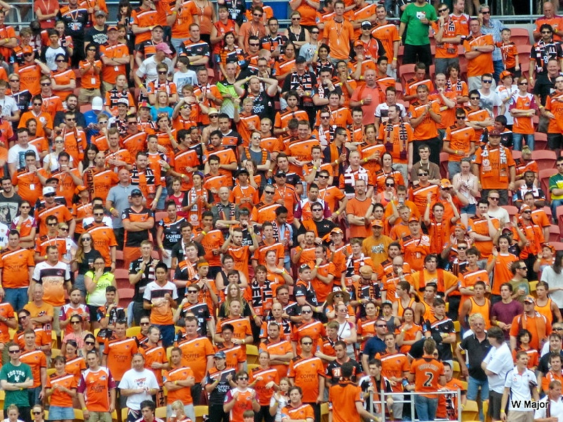 A-League Brisbane Roar v Western Sydney Wanderers 20 January 2013